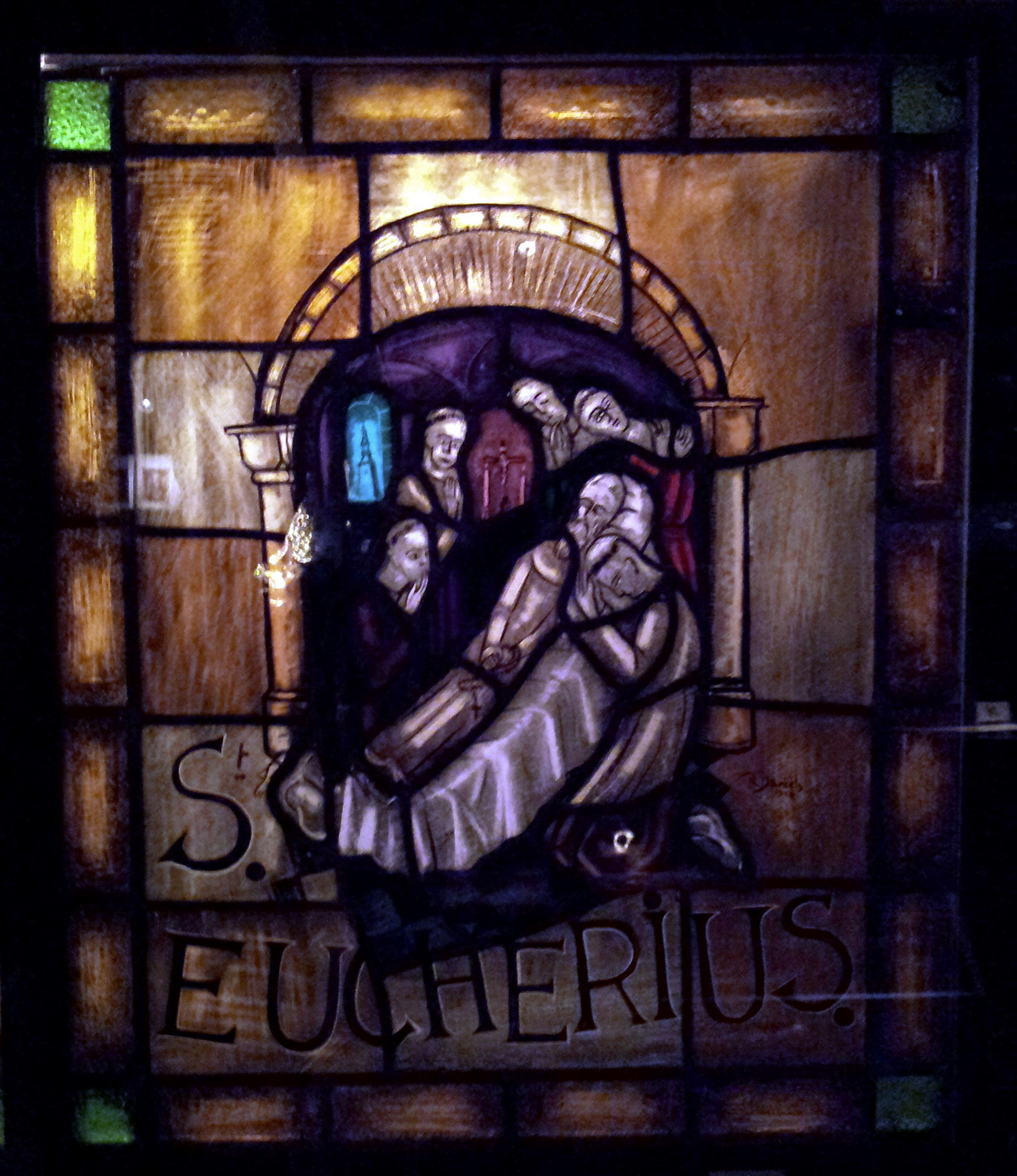 Treasury of the church of Our Lady (Onze-Lieve-Vrouwkerk), Sint-Truiden, Belgium. Stained glas with a portrait of Saint Euchaire on his death bed (R. Daniëls, 1948).